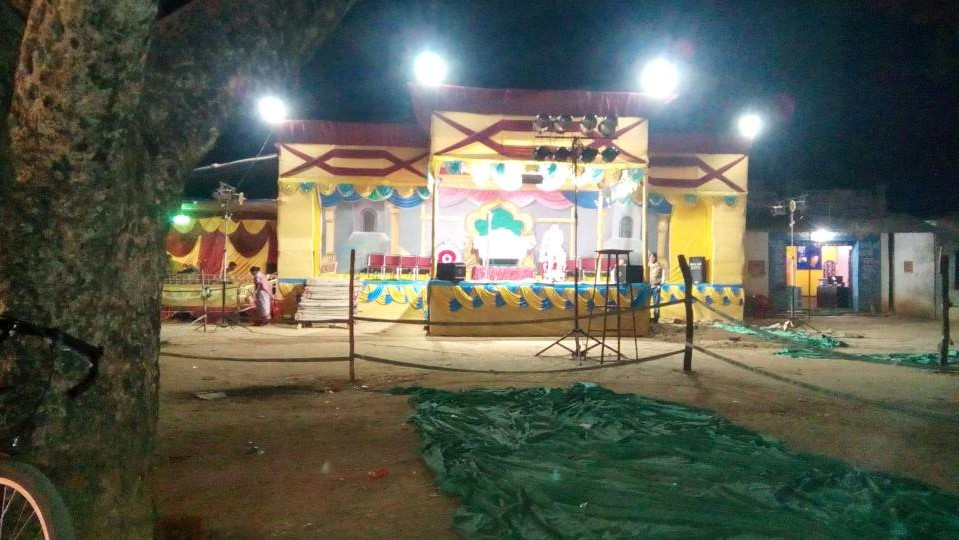 Dhanu Yatra 2017